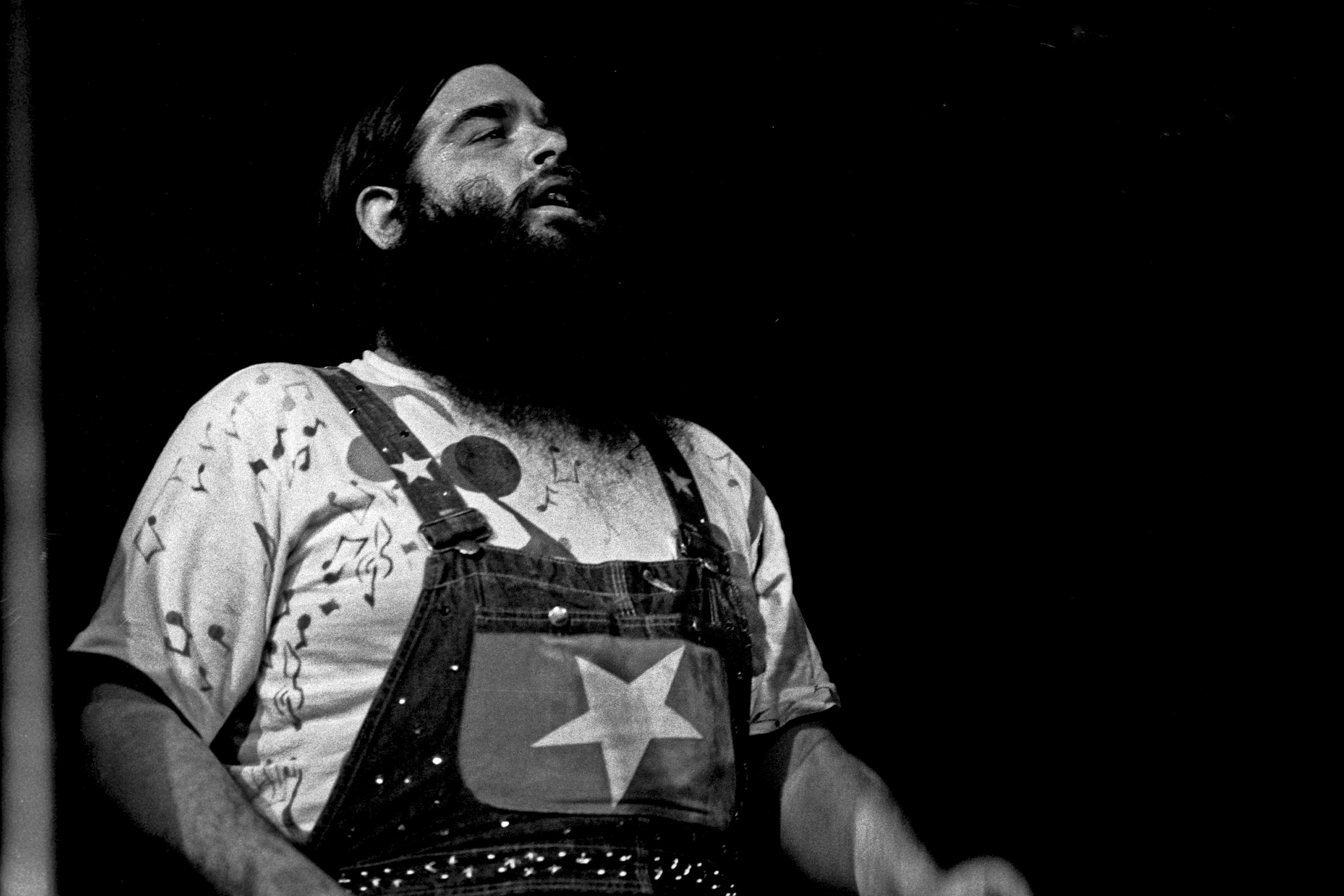 Bob Hite @ Canned Heat performing at the Musikhalle Hamburg, March 1974